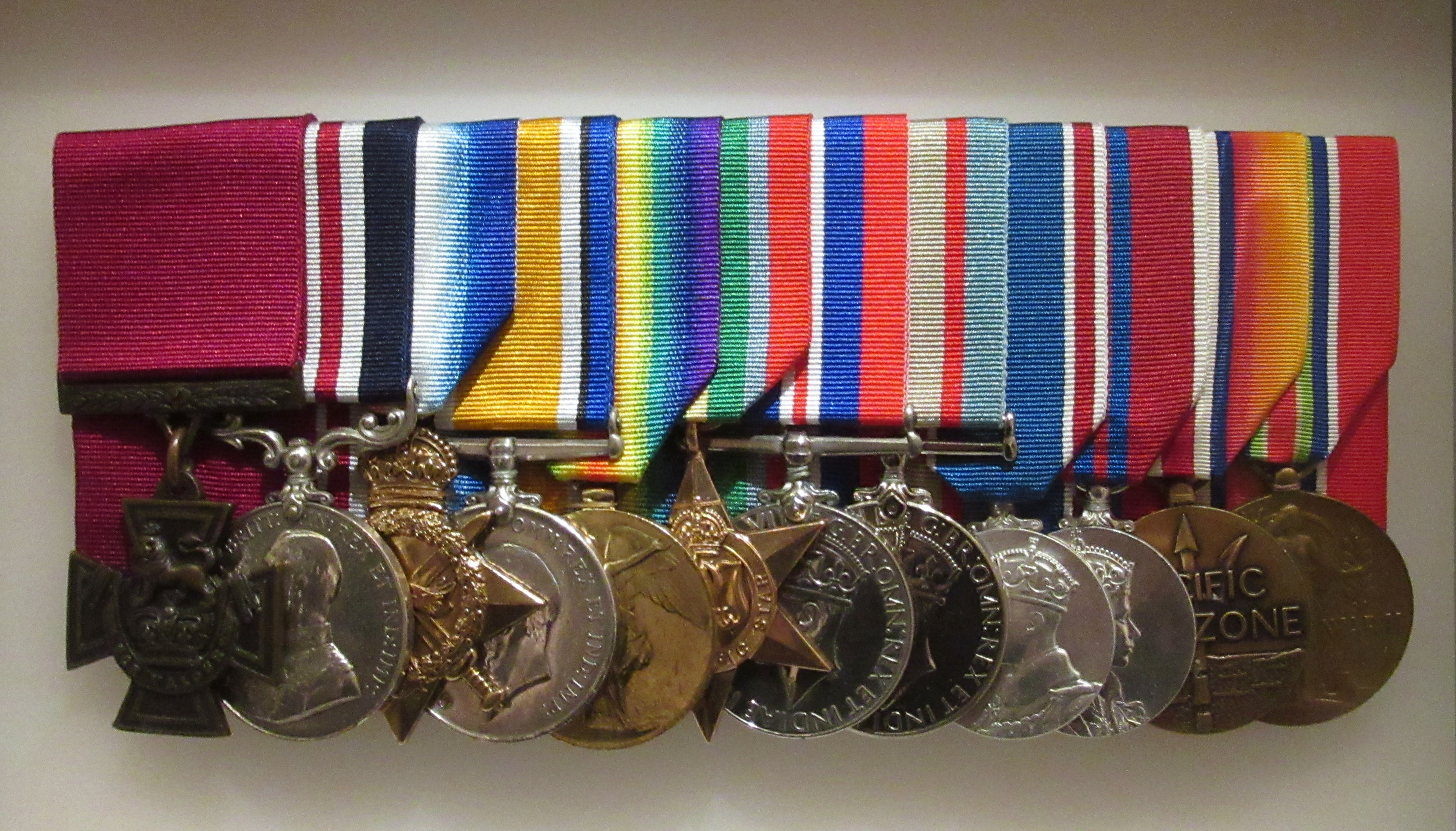 The Victoria Cross and other medals awarded to George Howell (VC) on display at the Australian War Memorial, Canberra. Photograph is an update on File:George Howell VC medals.jpg, as the Pacific Star campaign medal was added to the display group in 2015.